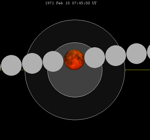 February 1971 lunar eclipse chart of moon's total lunar eclipse path through the earth's shadow. thumb